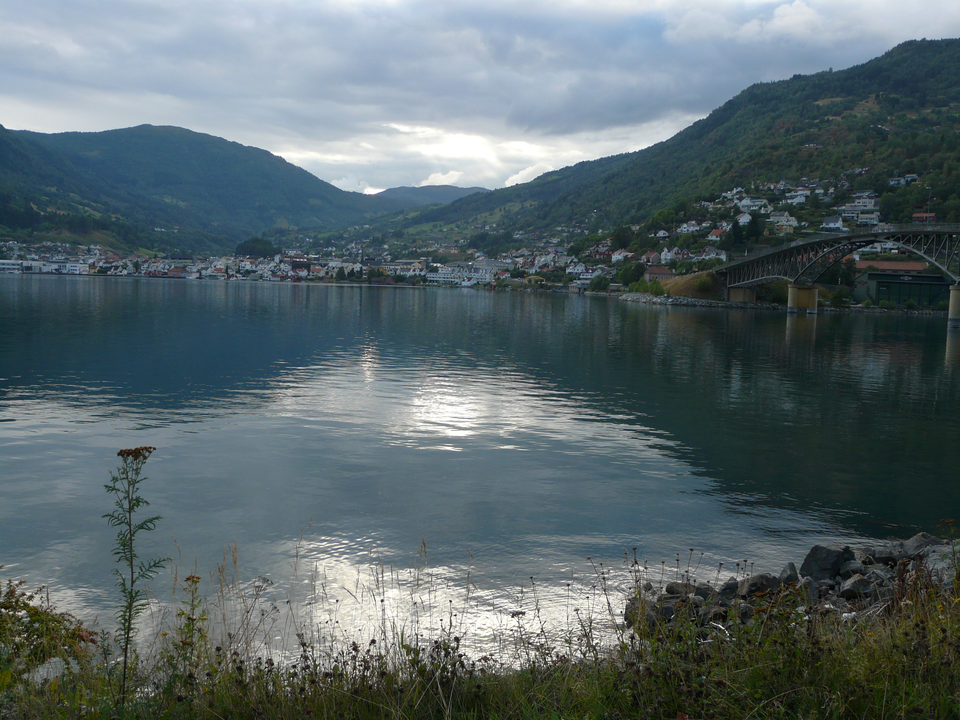 Sogndal